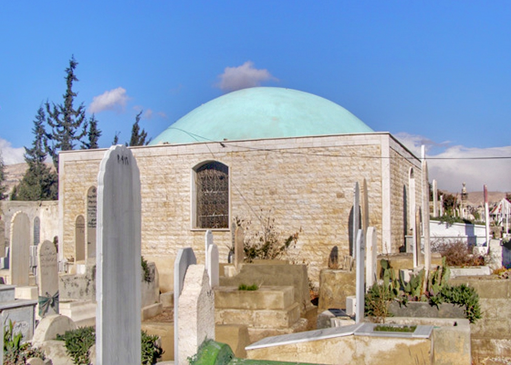 Tomb of Caliph Abd al-Malik ibn Marwan at Bab Al-Saghir Cemetery, Damascus Syria